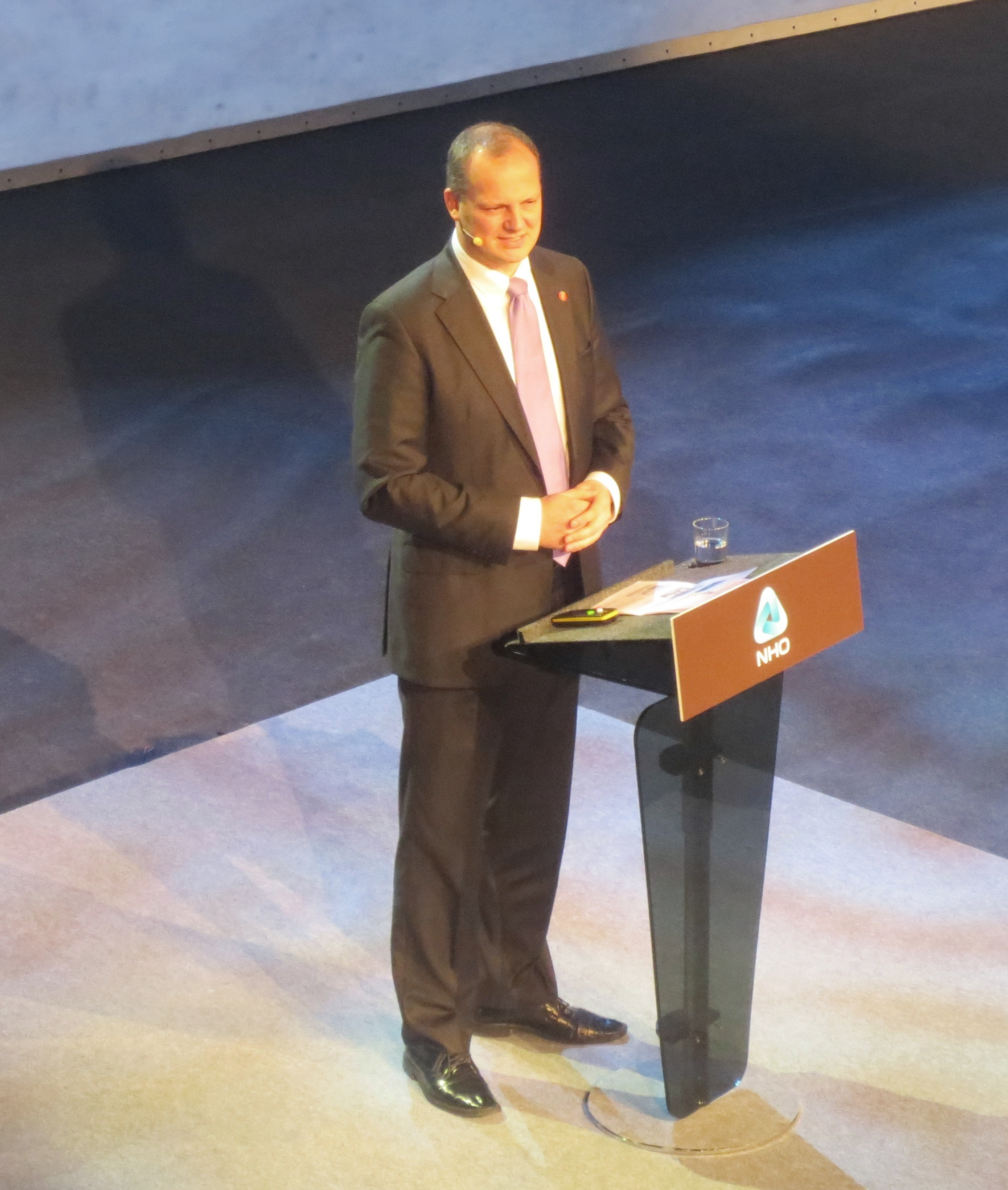 Image from the NHO annual conference, in the Opera building in Oslo, Norway. Image of minister of communication, Ketil Solvik Olsen.